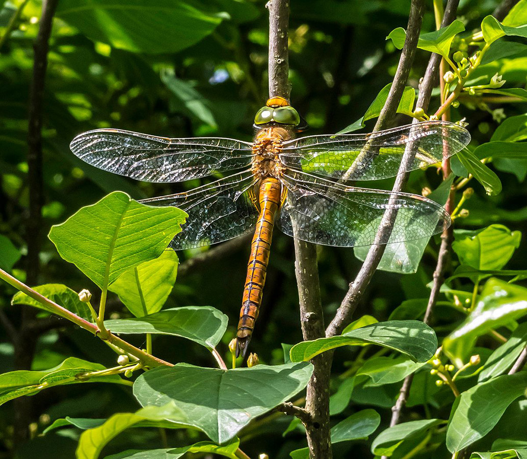 Green-Eyed Hawker (Aeshna isoceles) in The Netherlands